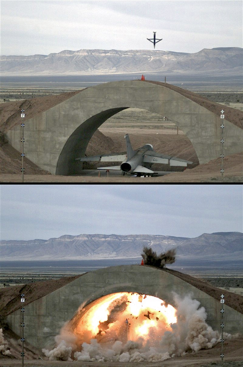 Terminal flight phase and detonation of a GBU-39 SDB GPS-guided bomb.